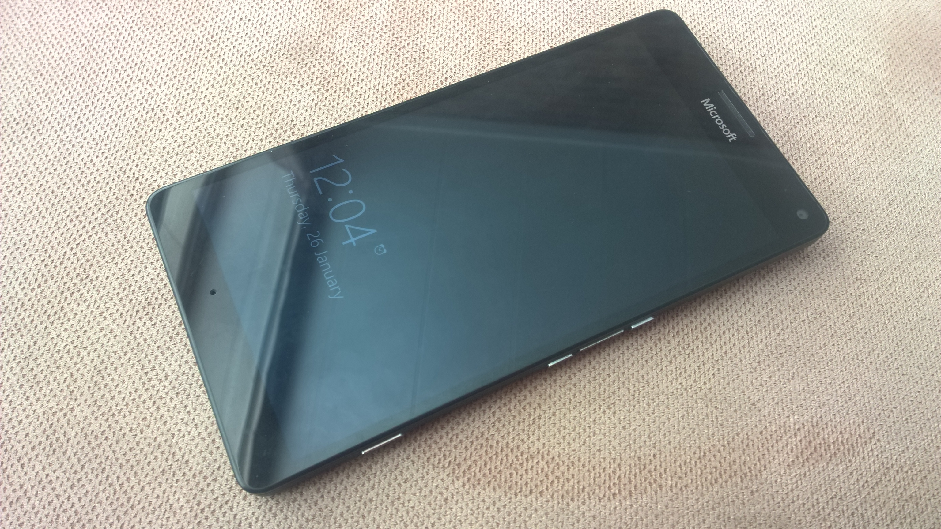 A Microsoft Lumia 950 XL running Microsoft/Nokia Glance Screen.